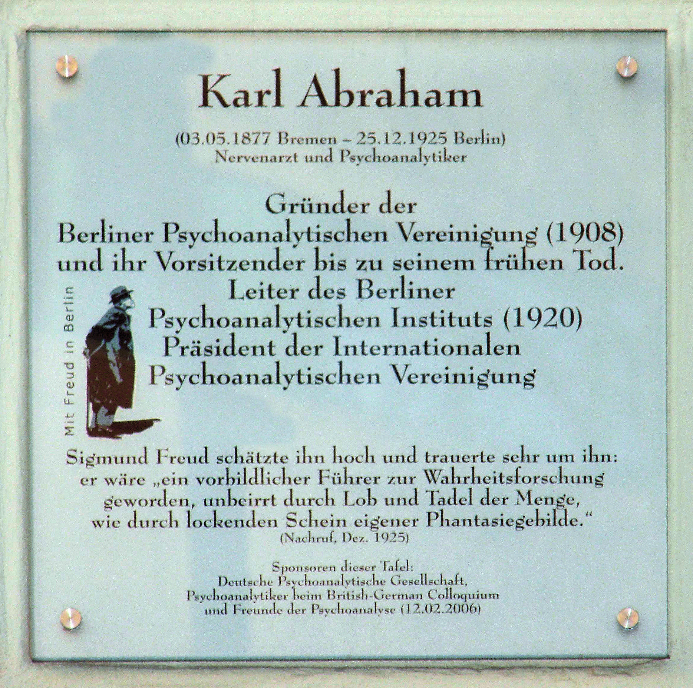 Memorial plaque, Karl Abraham, Rankestraße 24, Berlin-Charlottenburg, Germany